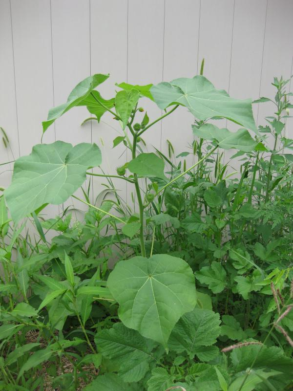 Velvetleaf (Abutilon theophrasti)